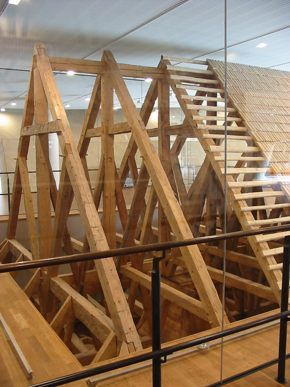 Museum of the History of Polish Jews in Warsaw: roof framework of the wooden synagogue from Gvozdets (reconstructed); note the part of covering of wood shingles